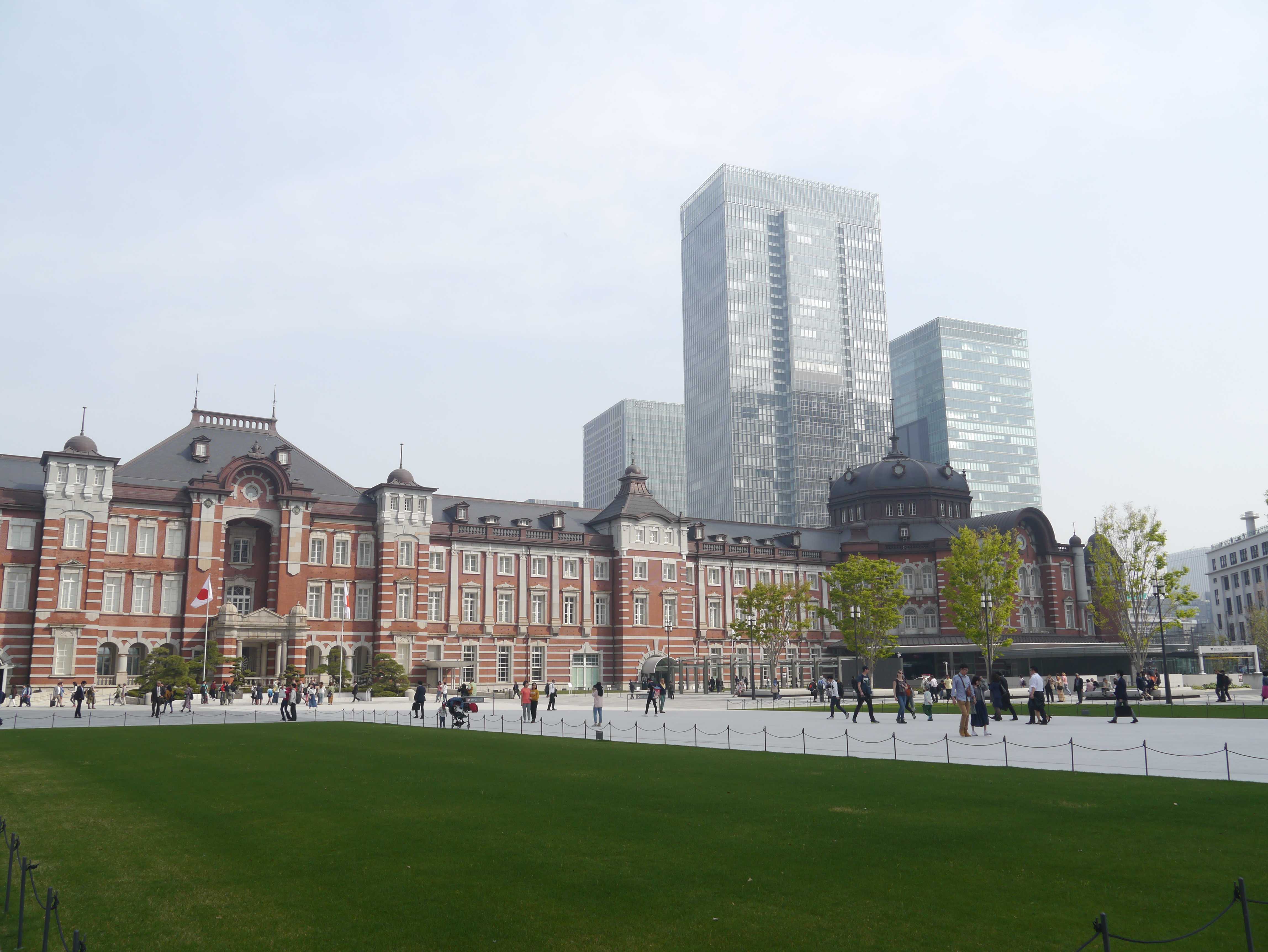 Tokyo Central Station, Tokyo/Tokyo Prefecture, Japan